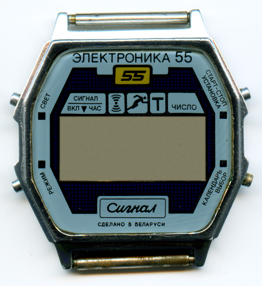 My watch "Электроника 55"